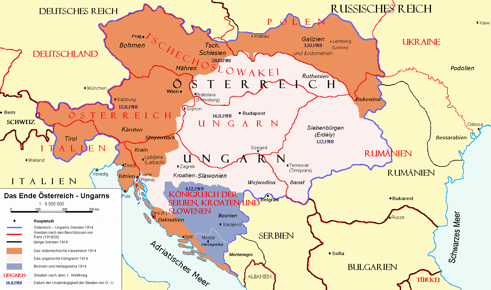 The end of Austria-Hungary after the Paris Treaty. Border of Austria-Hungary in 1914 Borders in 1914 Borders in 1920 Austrian Empire in 1914 Kingdom of Hungary in 1914 Bosnia and Herzegovina in 1914